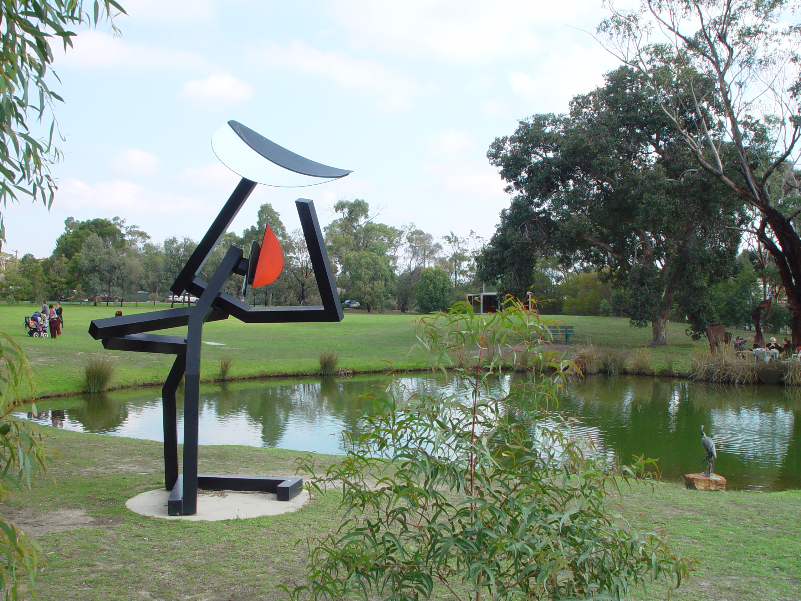 Inge King's 1984-85 steel sculpture "Jabaroo" is located at the McClellan Gallery and Sculpture Park, 390 McClelland Drive Langwarrin, Victoria, Australia. Licencing